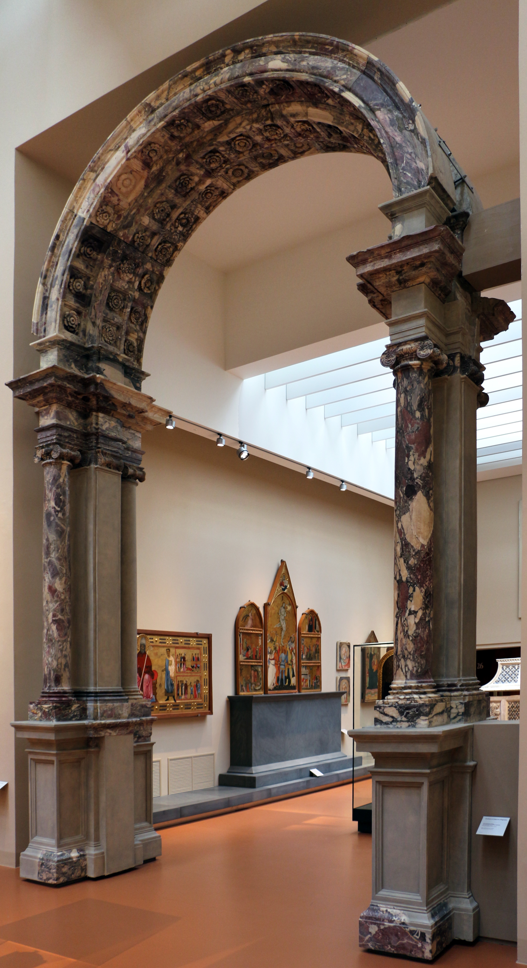 Museo dell'Opera del Duomo (Florence)